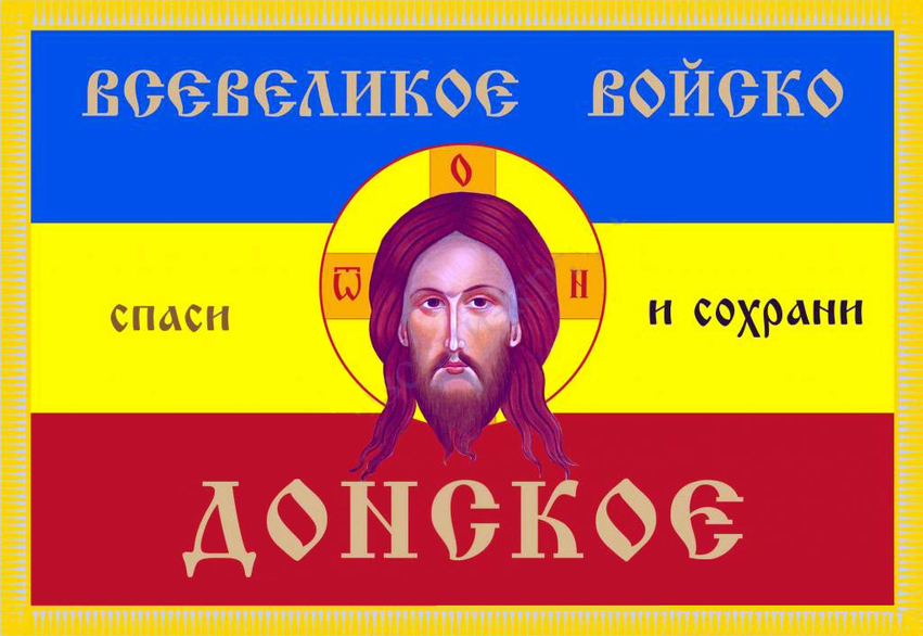 Don Cossacks National Guard Banner.